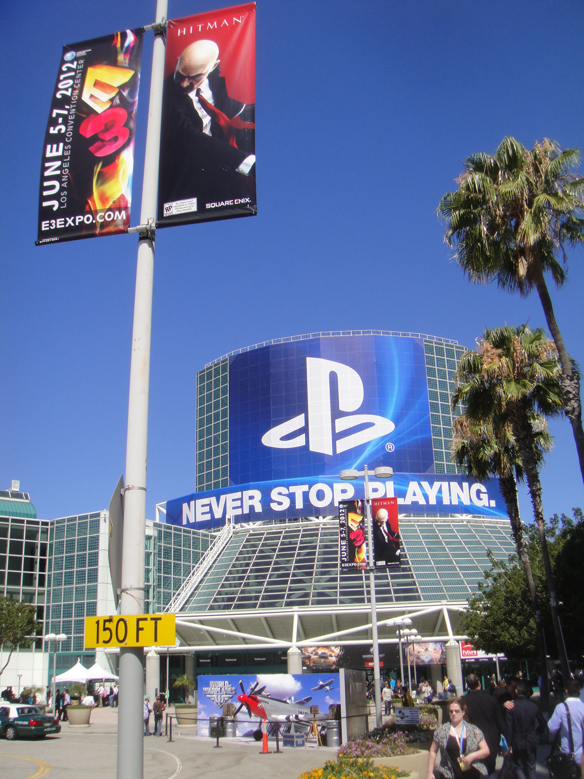 E3 Expo 2012 - Playstation banner